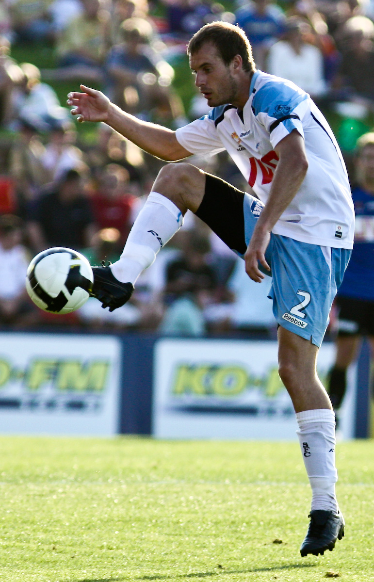 Iain Fyfe playing against Newcastle Jets